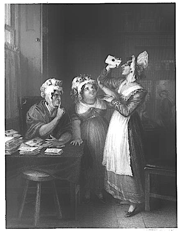 Engraved plate